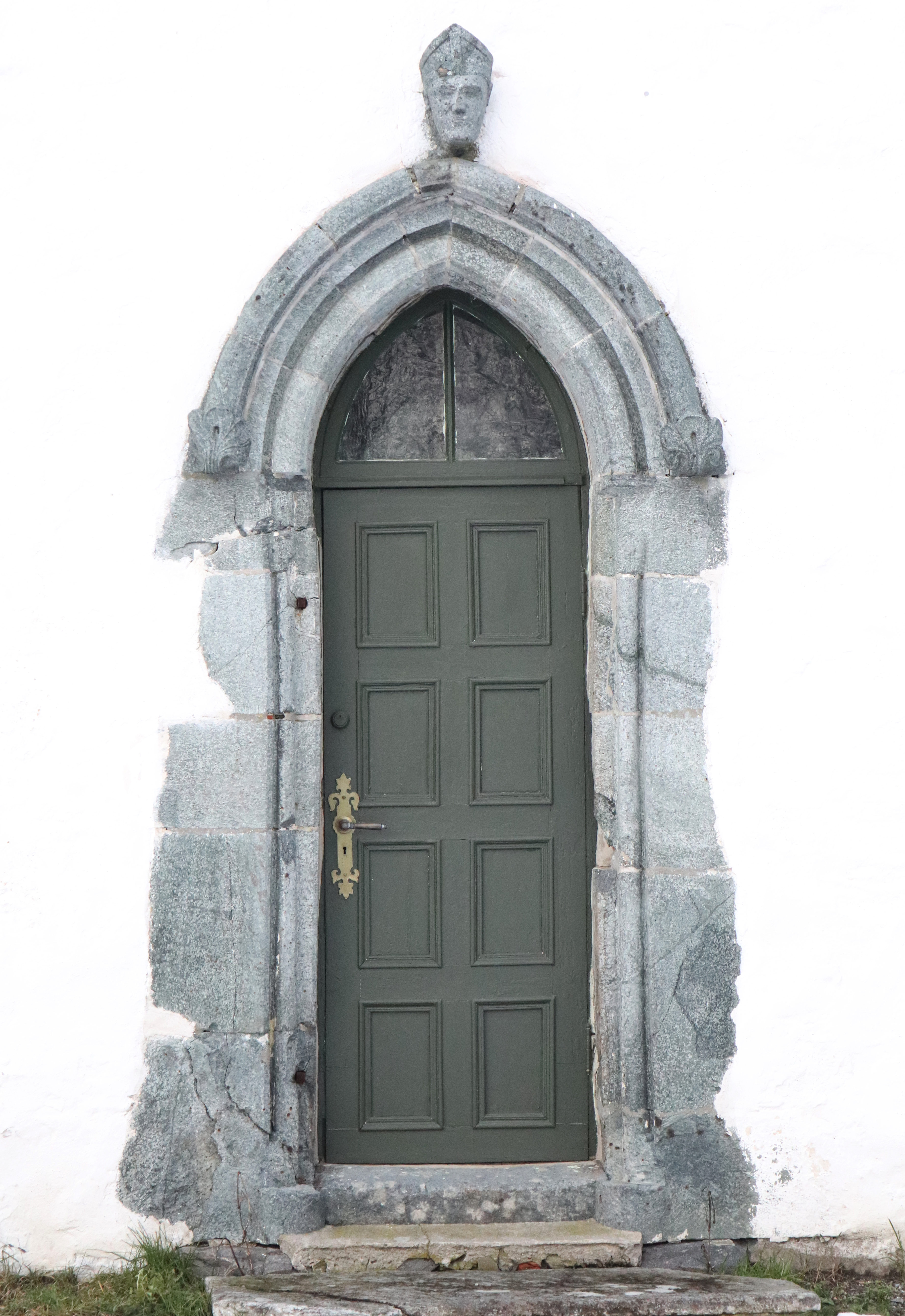 Detail Øyestad church